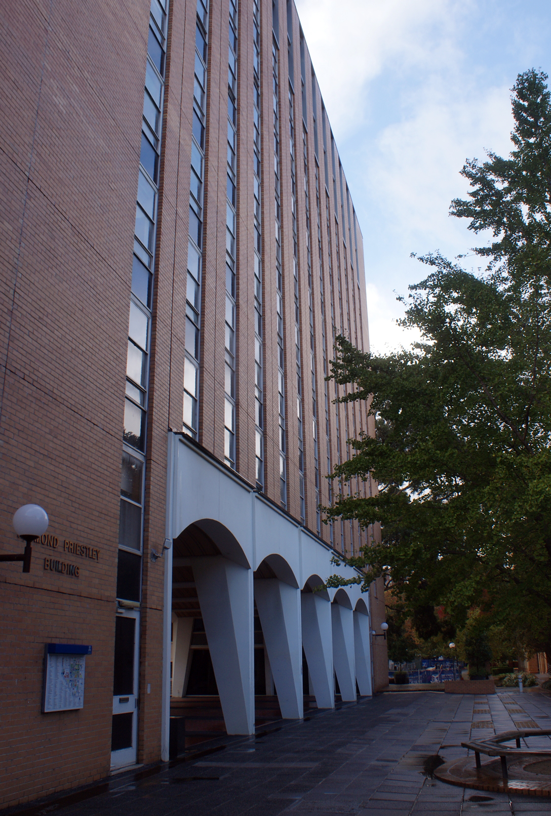 The building was constructed between 1967-70 in a similar way to the Redmond Barry building.